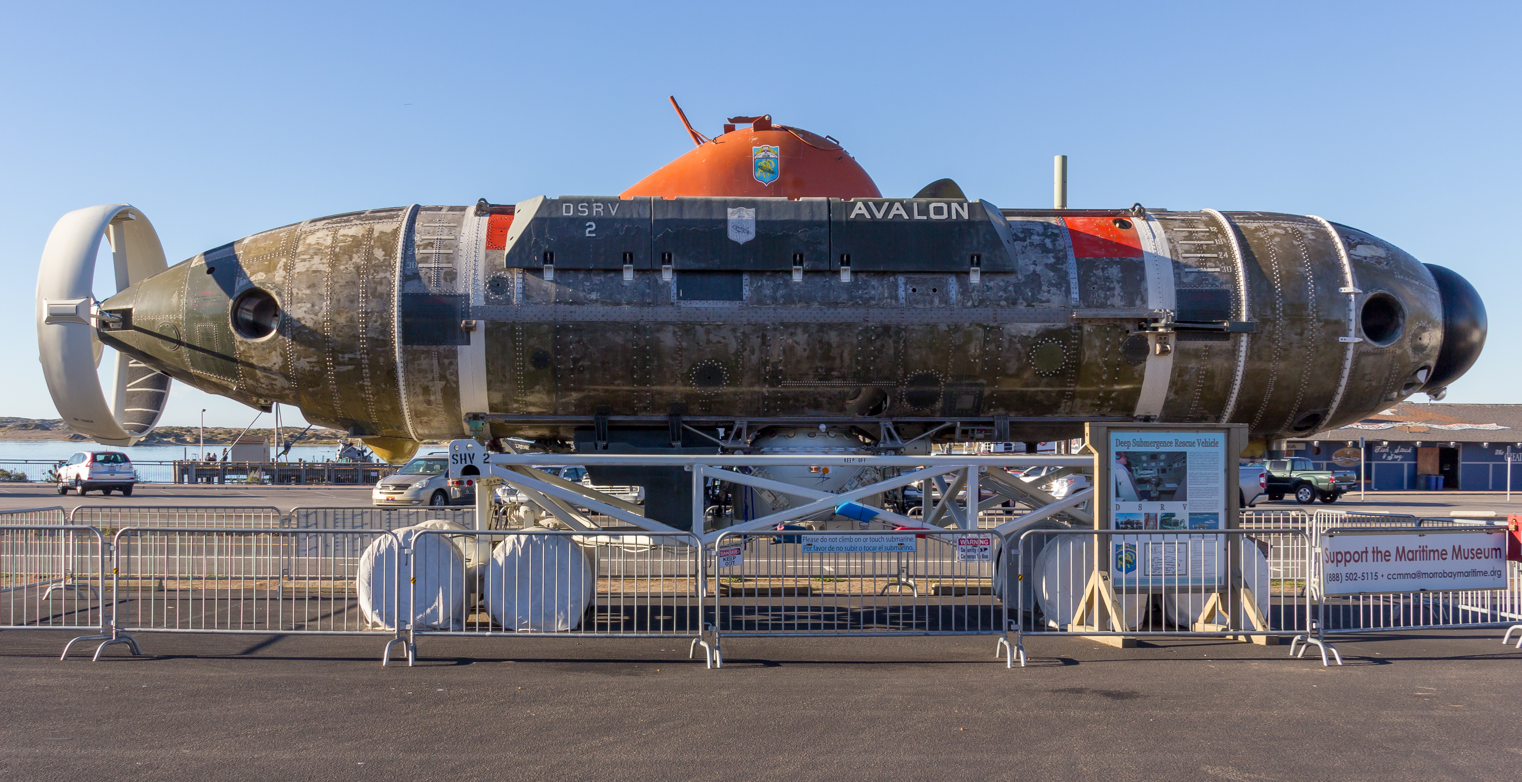 DSRV-2 Avalon in Morro Bay, California, United States